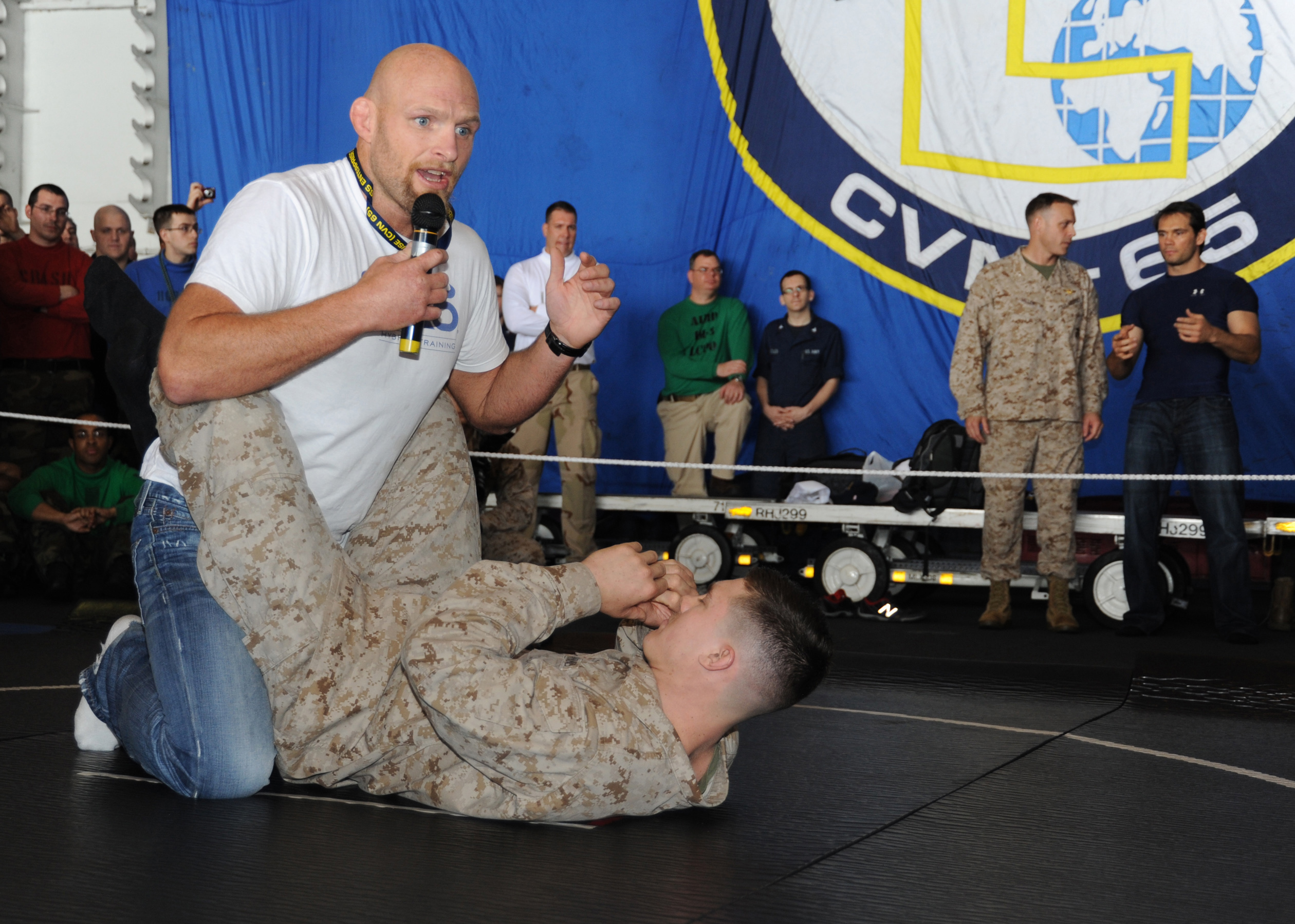 ARABIAN GULF (April 16, 2012) Ultimate Fighting Championship (UFC) fighter Keith Jardine and a Marine demonstrate wrestling moves in the hangar bay aboard the aircraft carrier USS Enterprise (CVN 65). Enterprise is deployed to the U.S. 5th Fleet area of responsibility conducting maritime security operations, theater security cooperation efforts and support missions as part of Operation Enduring Freedom. (U.S. Navy photo by Mass Communication Specialist Seaman Harry Andrew D. Gordon/Released) 120416-N-VH054-043.